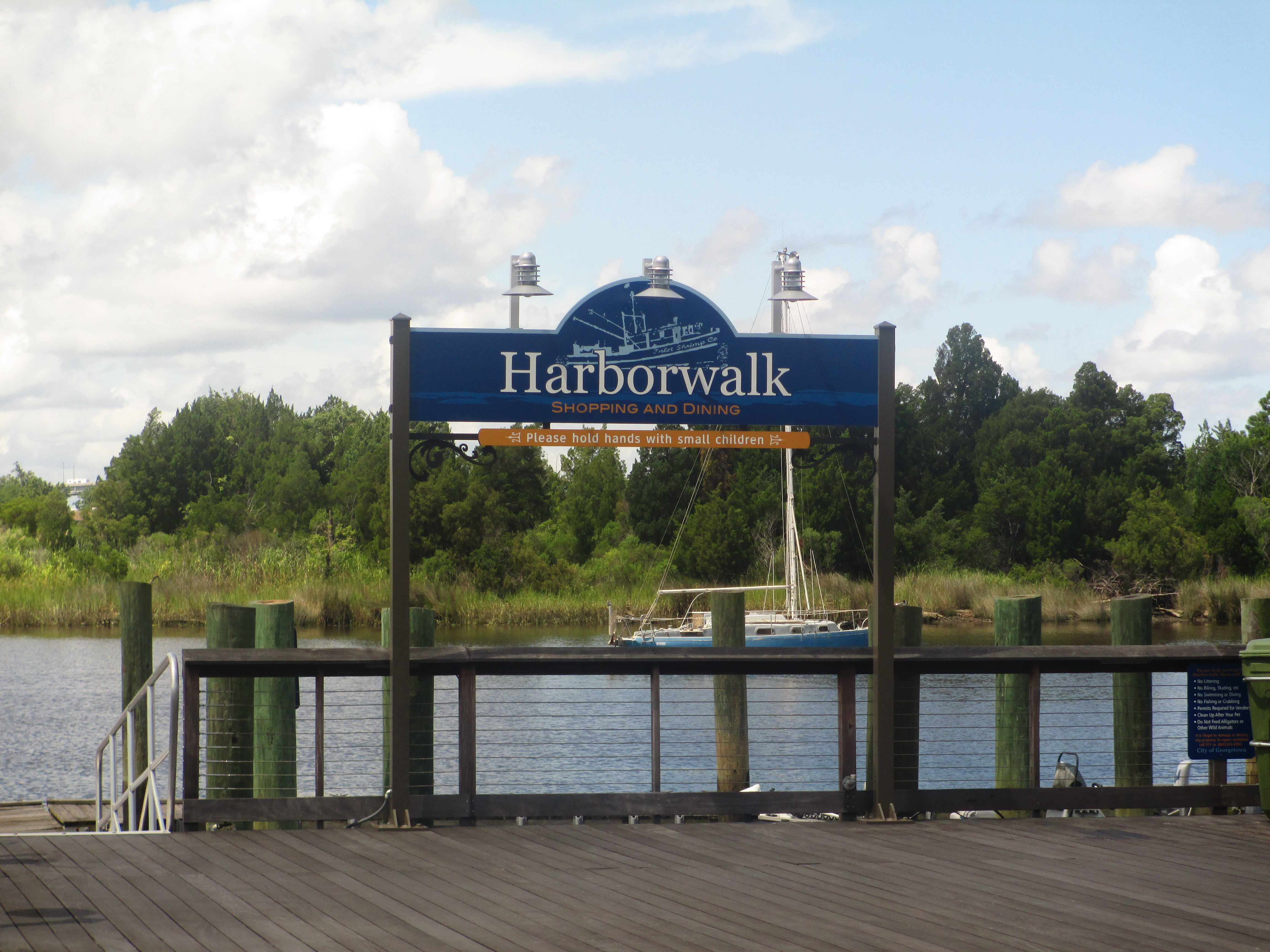 I took photo of Harborwalk in Georgetown, SC, with Canon camera.